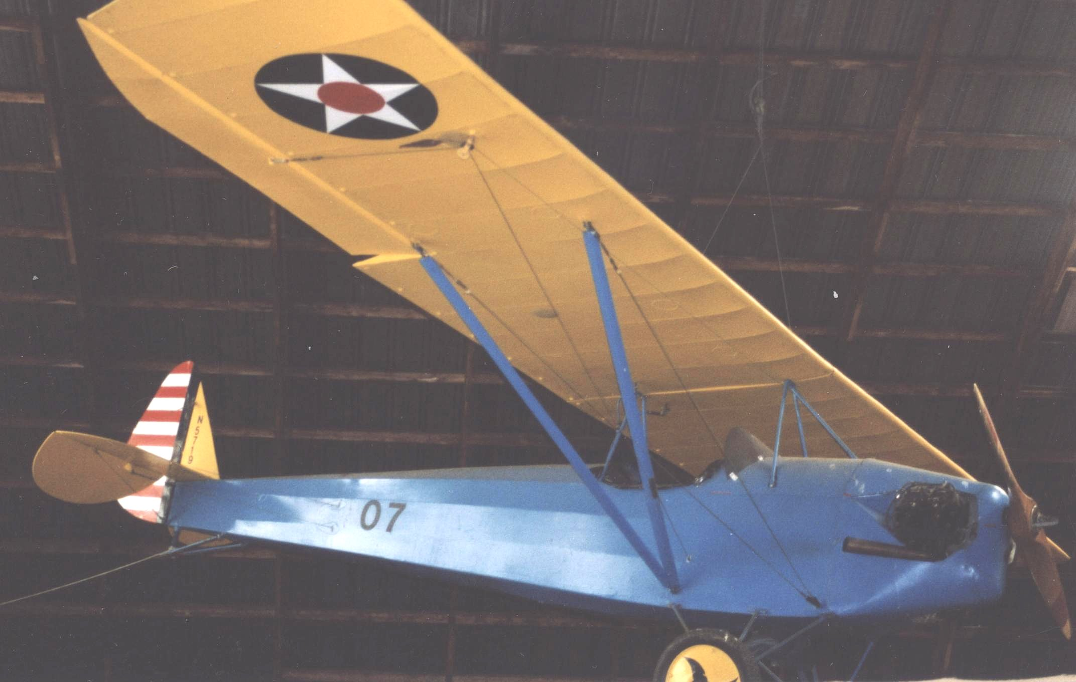 Heath Parasol LNA-40 ultralight high-wing monoplane exhibited at the Rhinebeck Aerodrome Museum, New York State